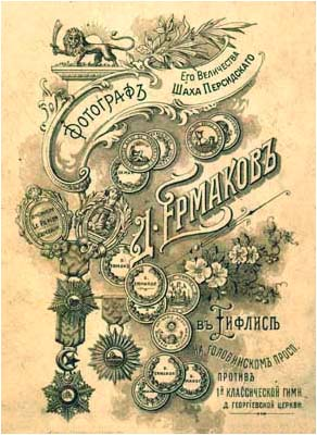 D. Jermakov's photographic stamp. Tiflis.